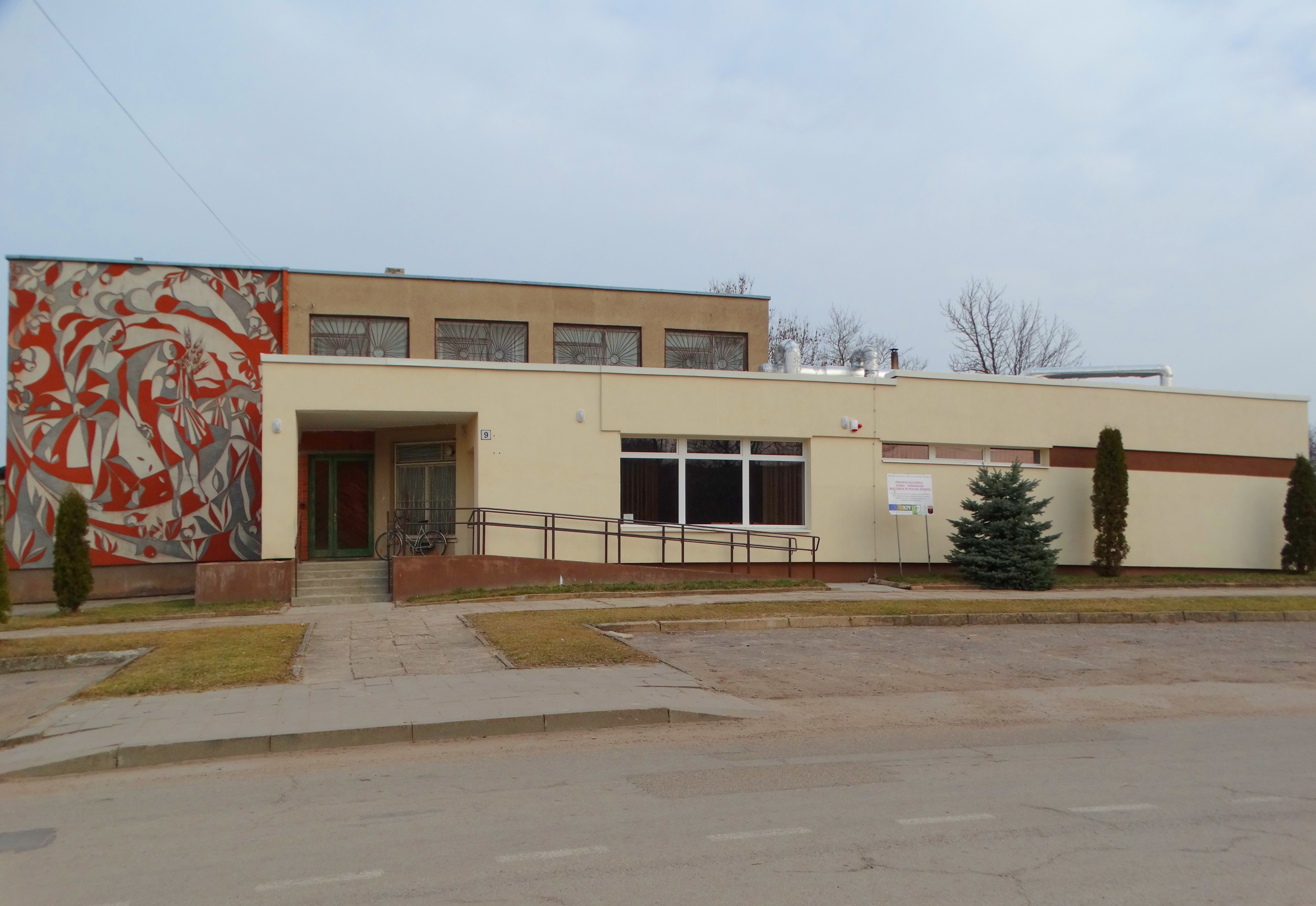 Kruopiai, Akmenė district, Lithuania